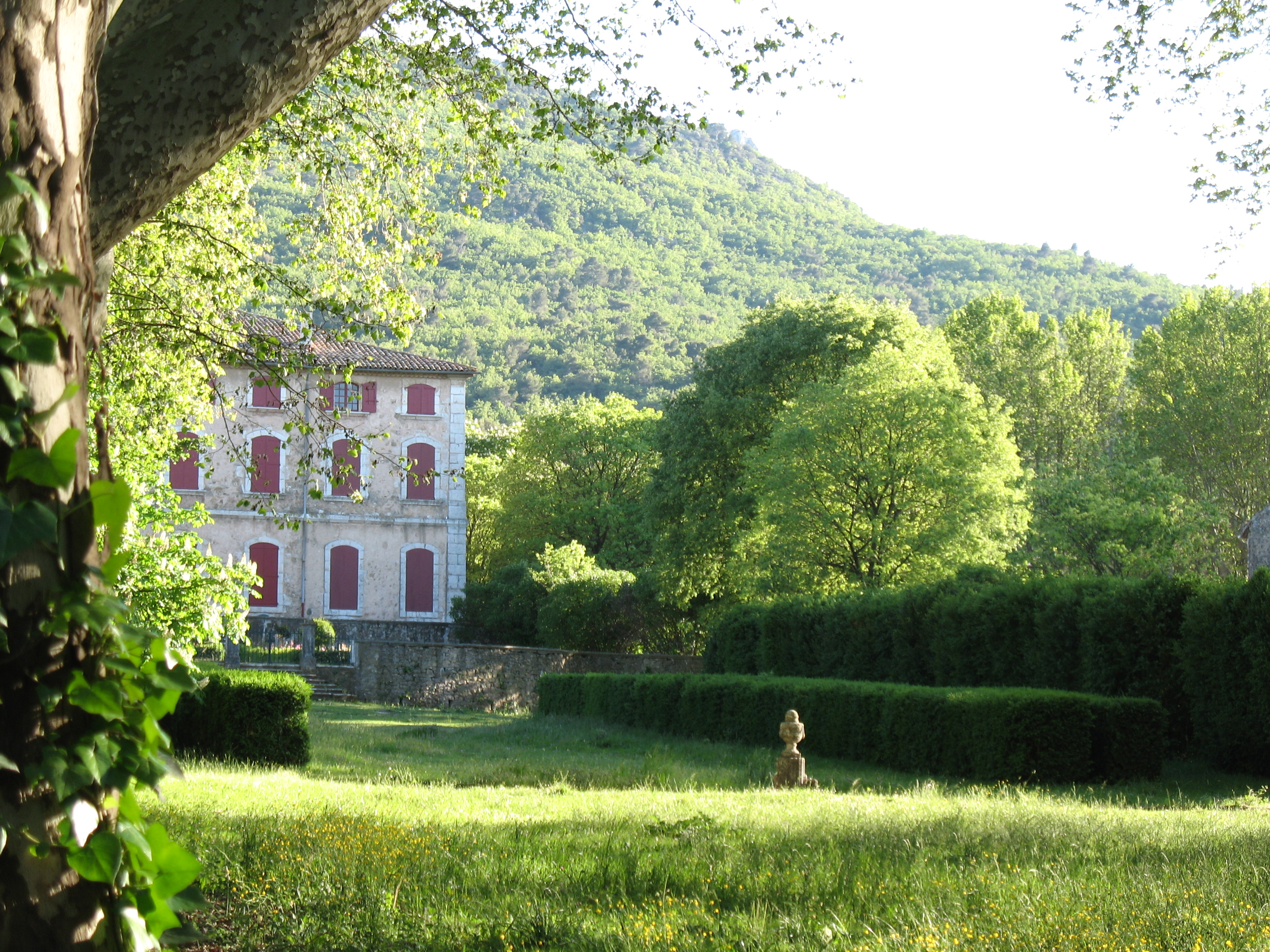 Le Château - Pourcieux - Var - France